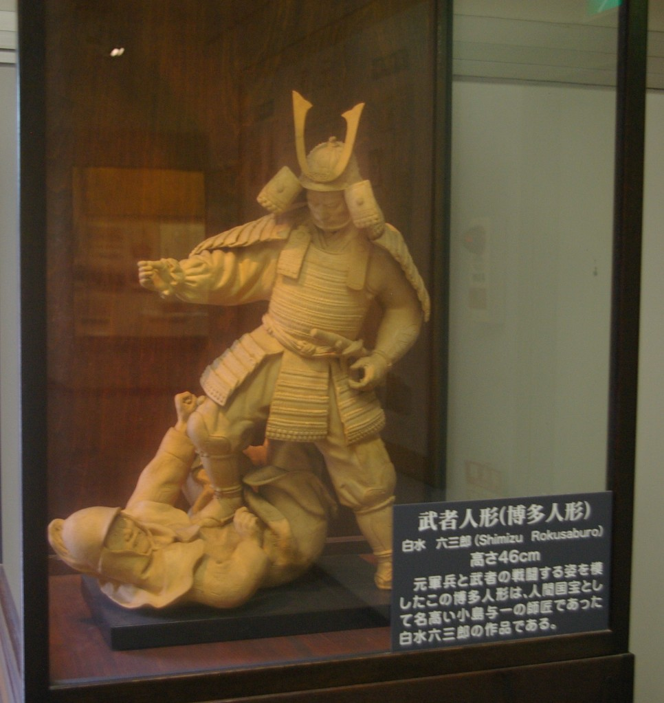 Samurai & Mongolian intruder. (Genko Historical Museum)